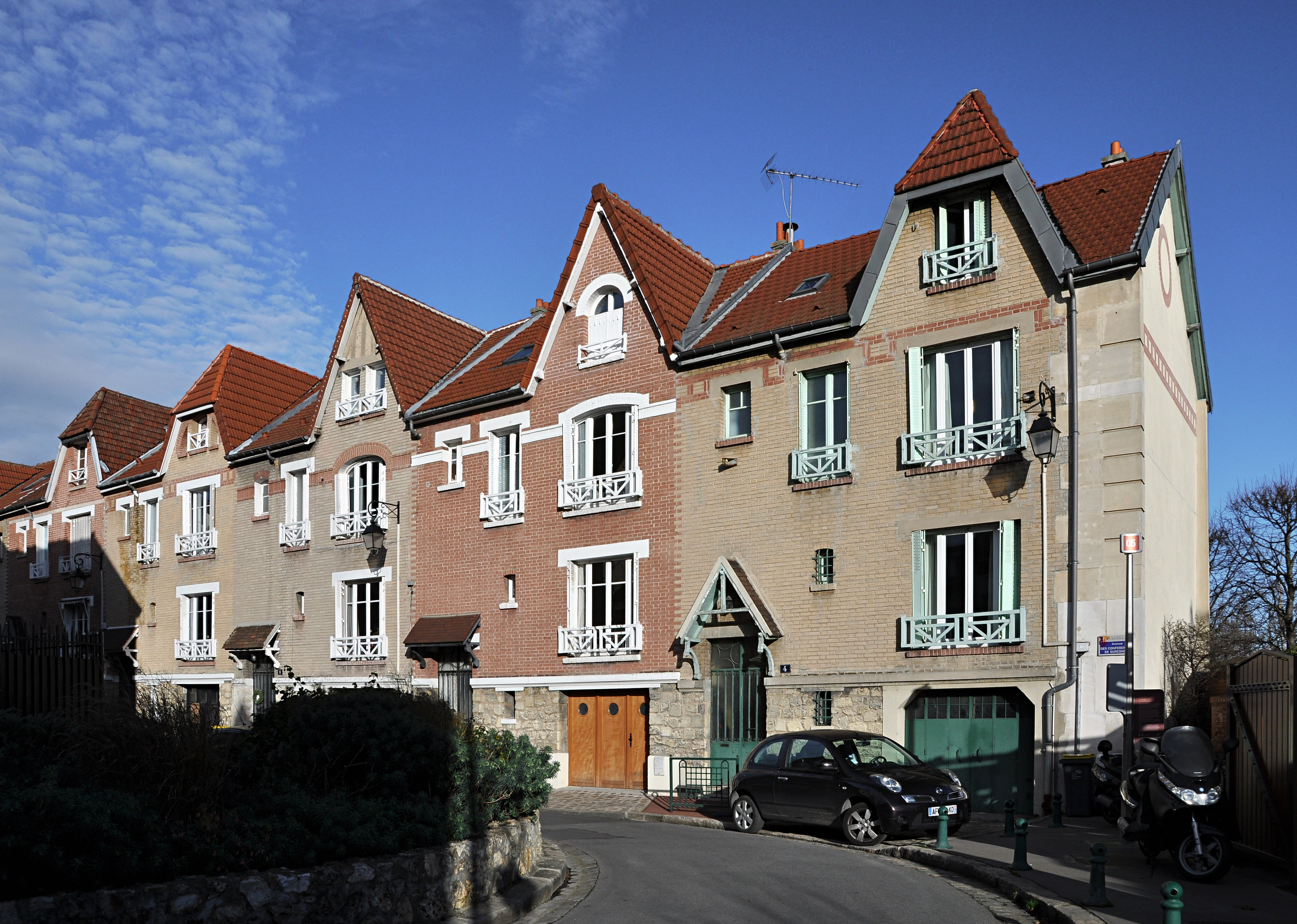 Village anglais (an english village) in Suresnes, Hauts-de-Seine department in France.